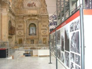 Museo della Memoria - Santa Margherita Belìce